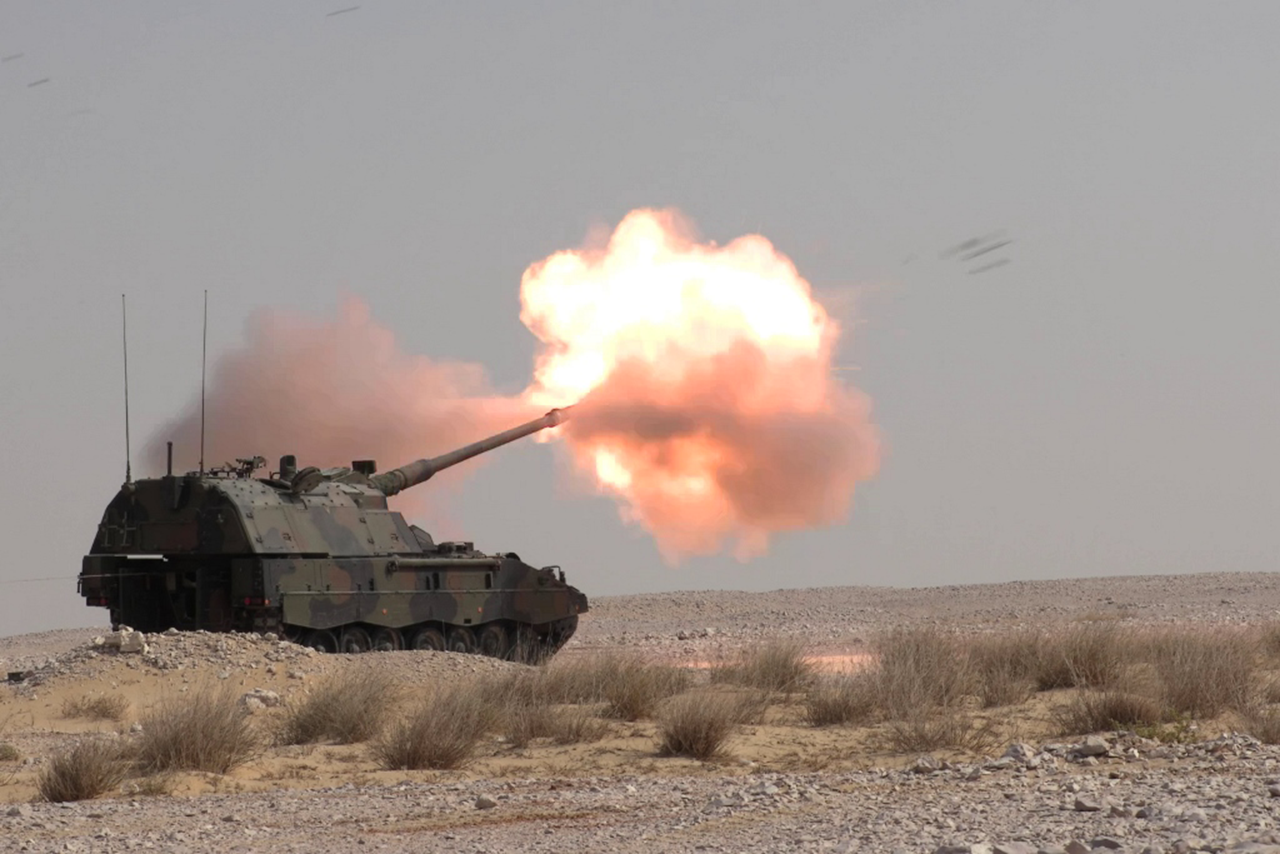 Italian Army - 8th Field Artillery Regiment "Pasubio" PzH2000 self-propelled howitzer during the NASR 19 exercise in Qatar